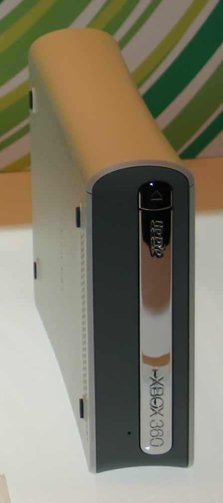 Xbox 360 HD DVD Player at Tokyo Game Show 2006